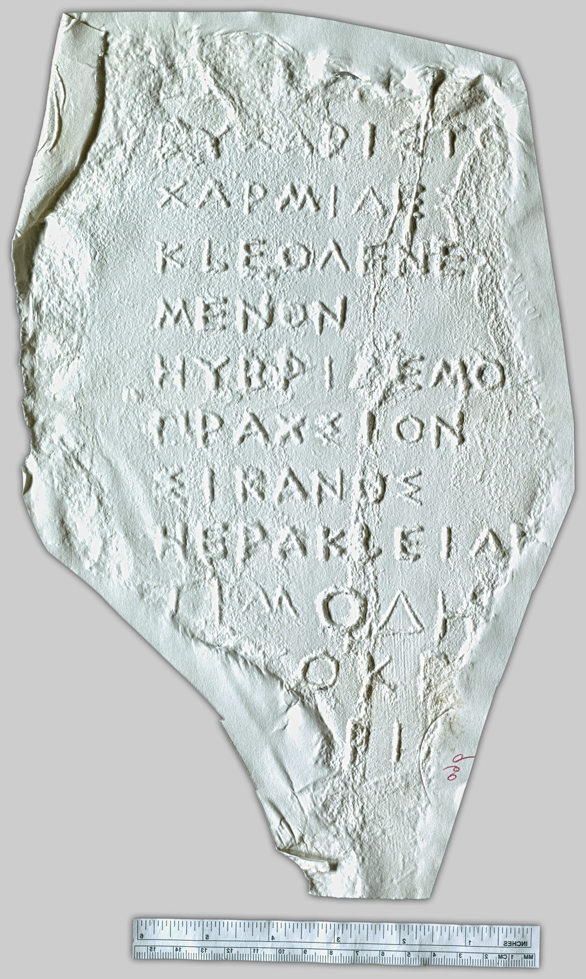 Reminder: No known copyright restrictions. Please credit UBC Library as the image source. For more information Date: 450-400 BCE Alternative Title: Category: Funerary inscriptions (public monuments) Language: Greek, Ancient (to 1453) Language: Title taken from Inscriptiones Graecae I2 (IG I2). Alternative title taken from Inscriptiones Graecae I3 (IG I3). Language: Digital Identifier: IG_I3_1187c Source: University of British Columbia. Department of Classical, Near Eastern and Religious Studies. Permanent URL